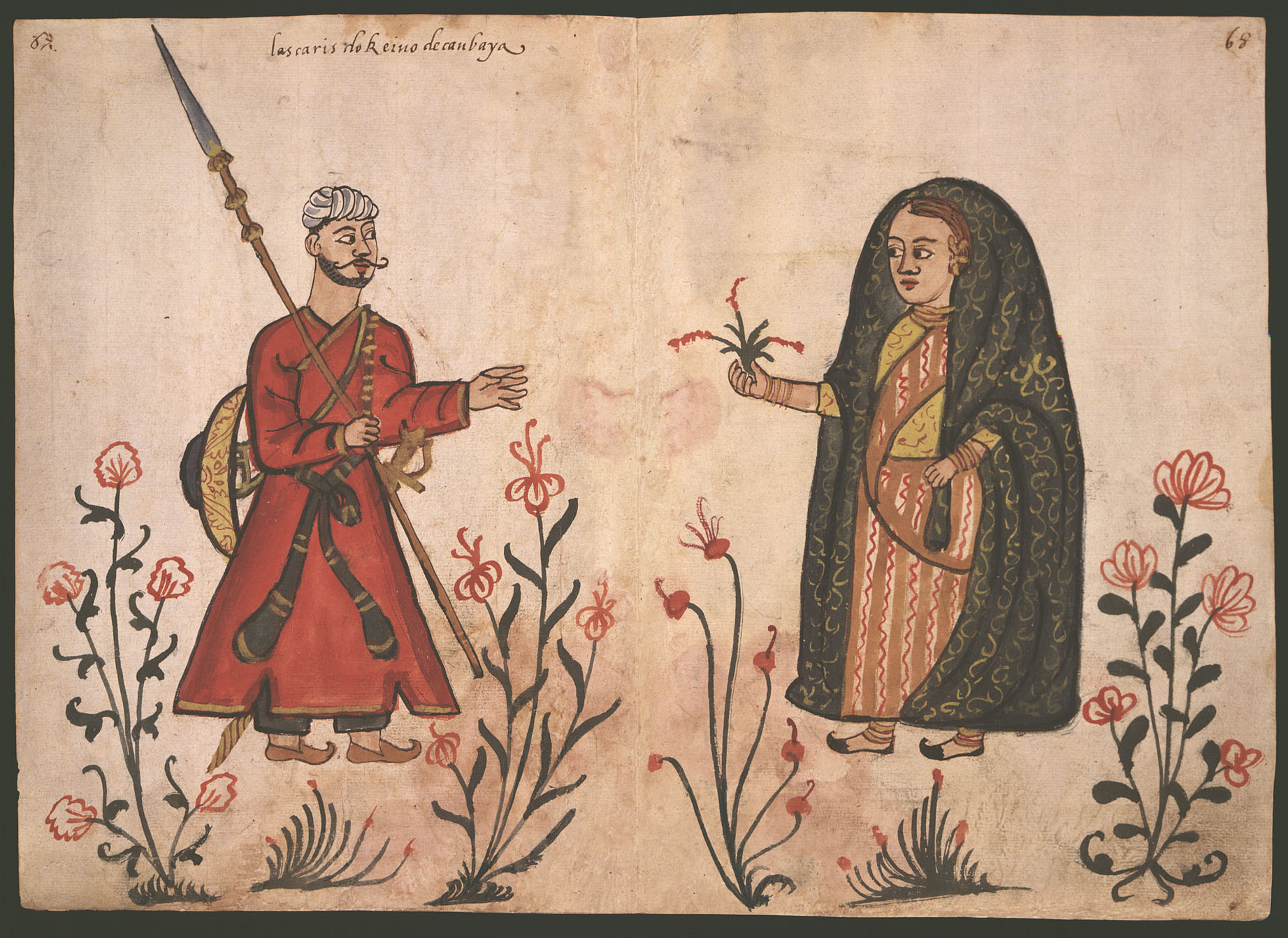 Anonymous 16th century Portuguese watercolour from the Códice Casanatense, depicting a soldier from the Sultanate of Gujarat and his wife. The inscription reads: "Lascaris (foot soldier) of the Kingdom of Cambay".